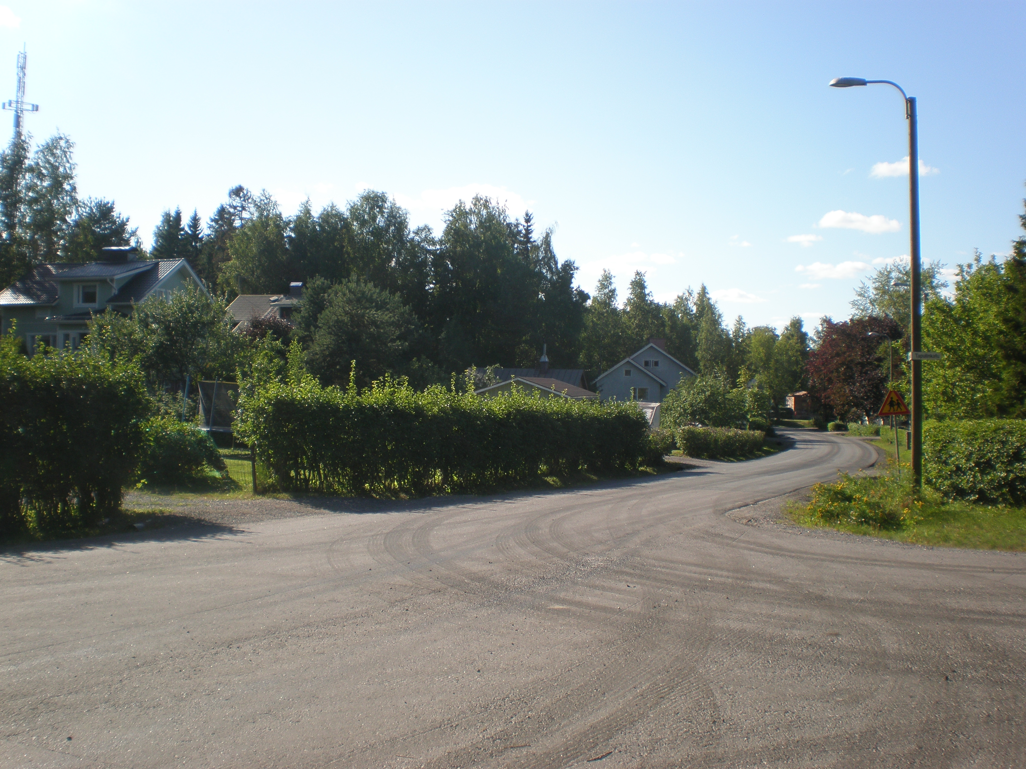 Houses at Niemi district, Tampere